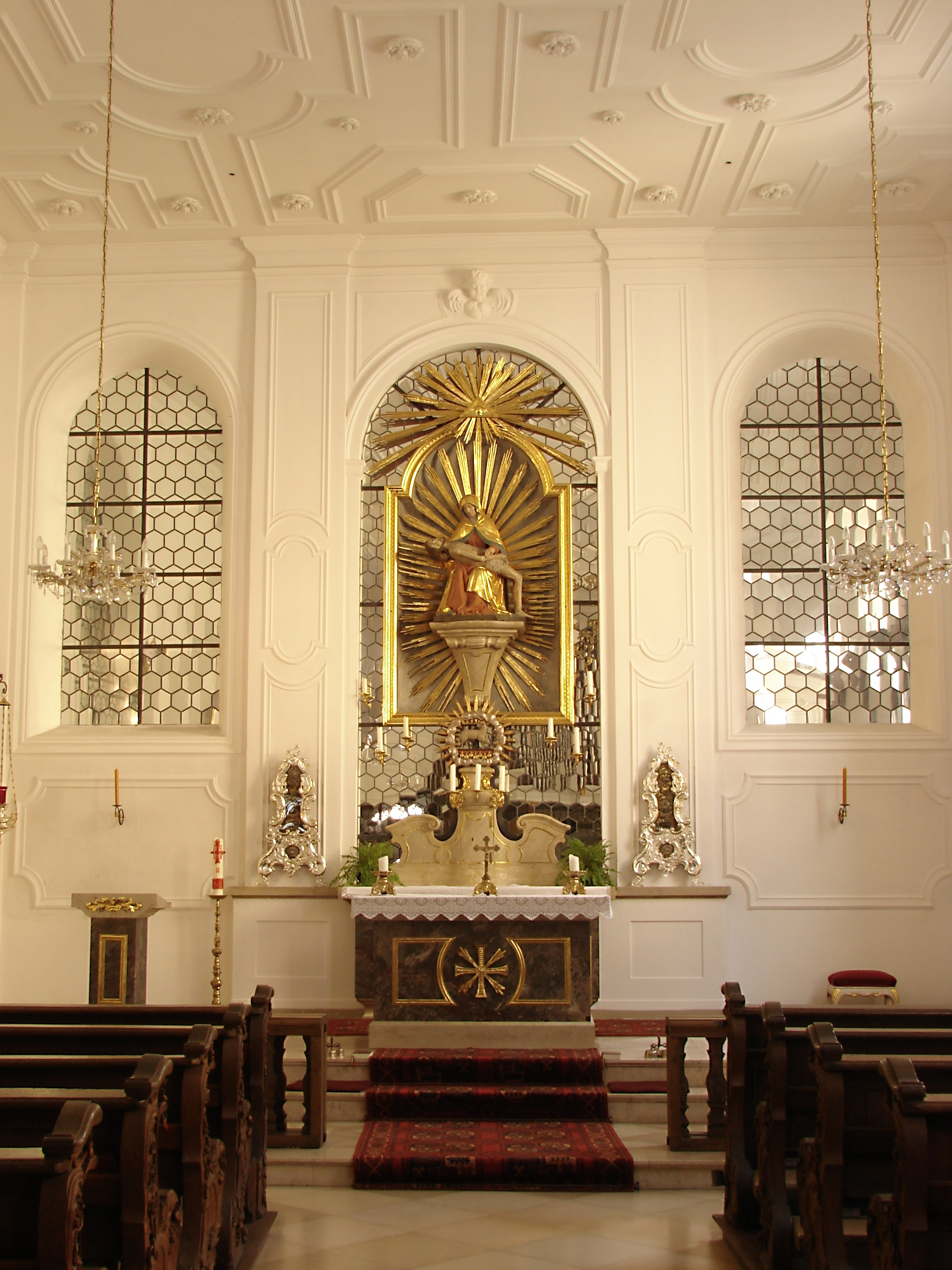 Schrobenhausen, interior of the Frauenkirche (Our Lady's Church); building startet in 1414, baroque interior